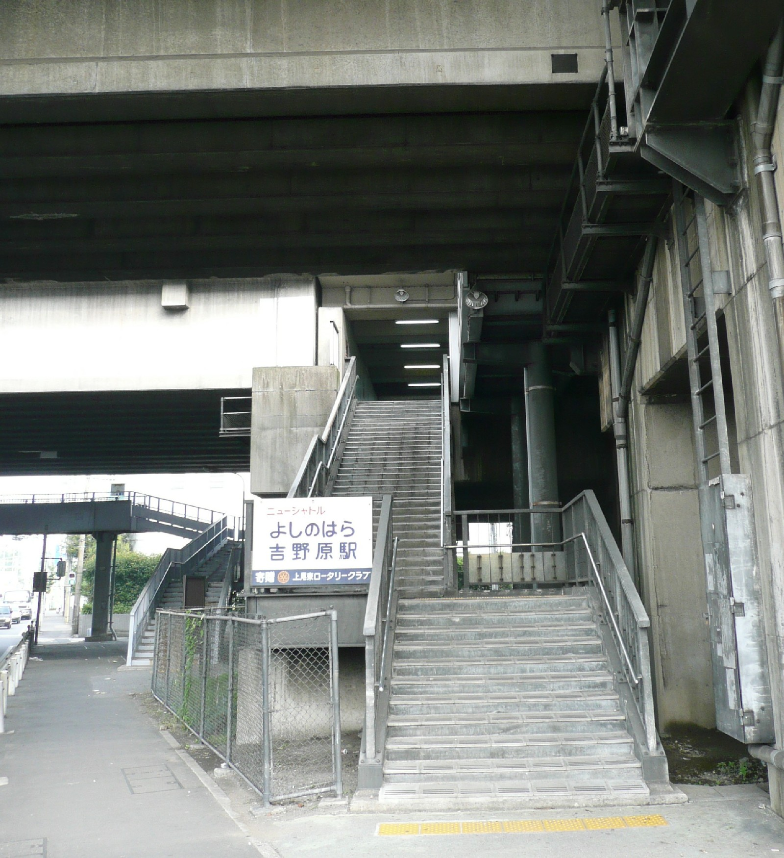 Yoshinohara Station entrance